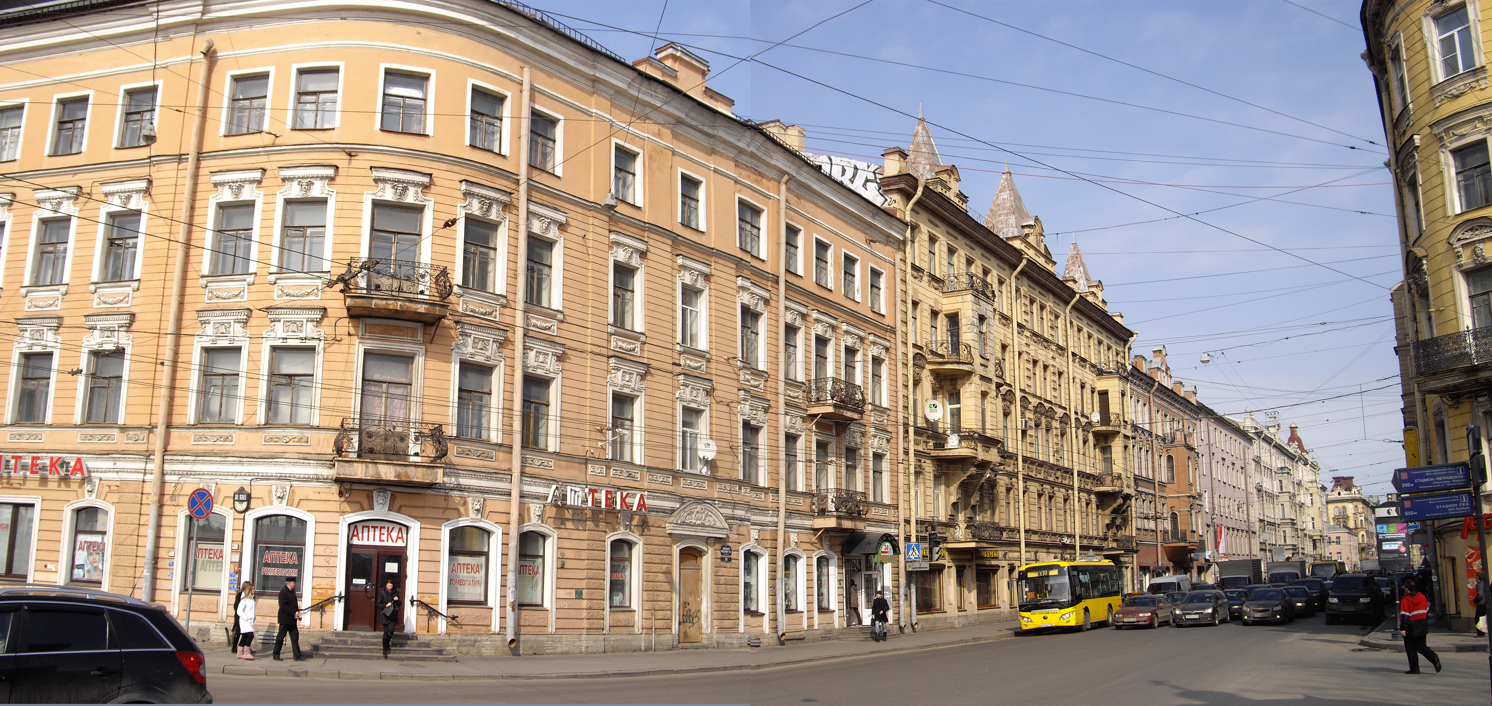 Bolshoy Prospekt (Petrograd Side) in Saint Petersburg at the crossing with Zhdanovskaya embankment (buildings numbers 2, 4, 6 etc.).